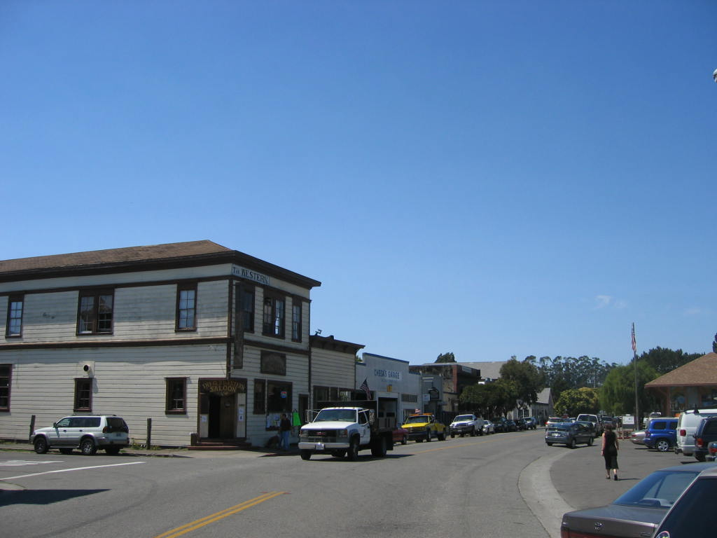 Shoreline Highway (California State Route 1) in Point Reyes Station, California.